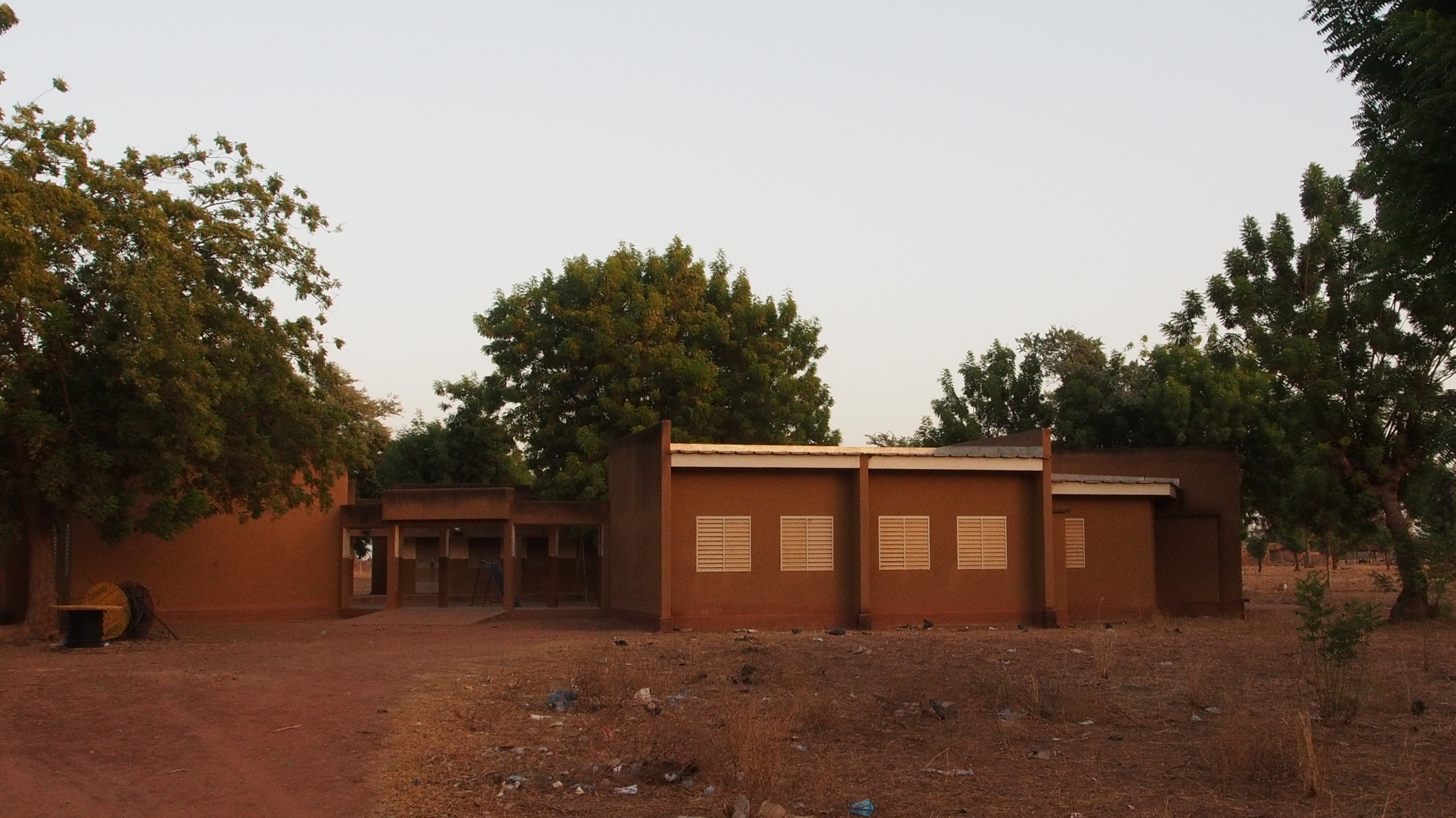 The kindergarten of Lâ-Todin, Passoré, Burkina Faso